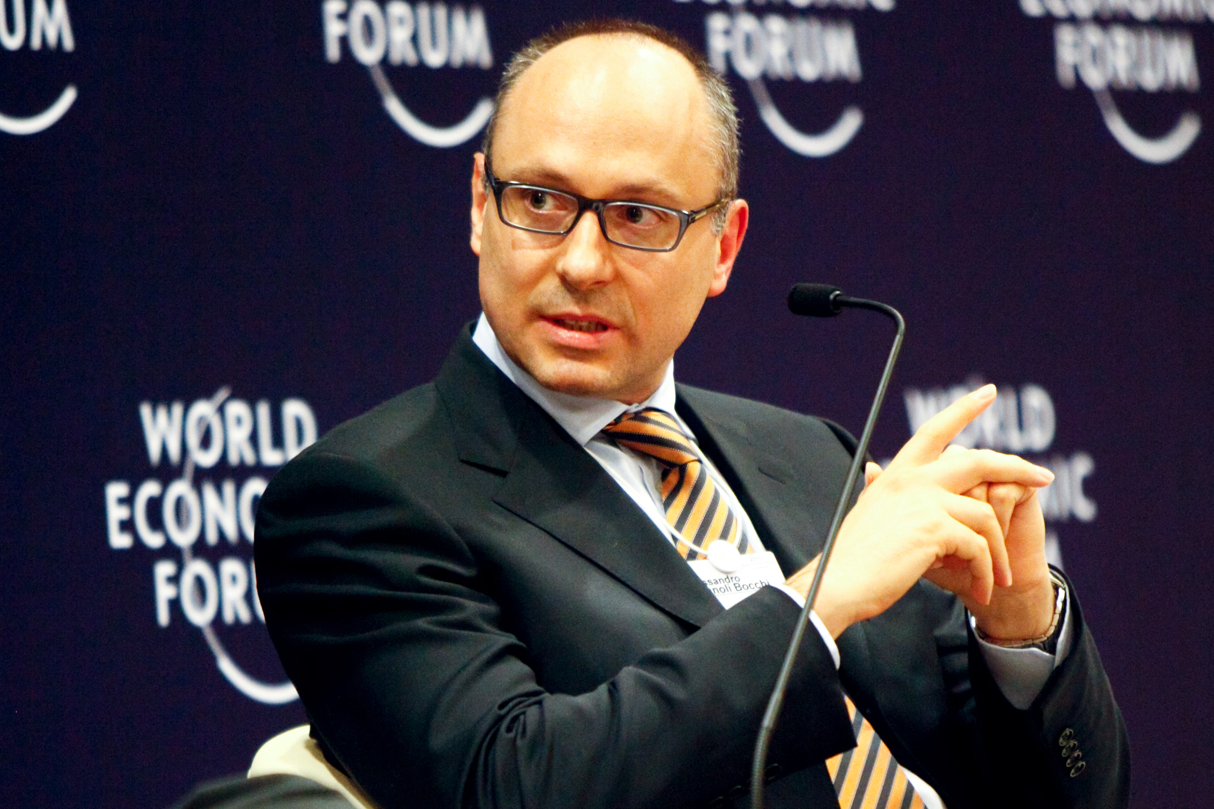 JAKARTA/INDONESIA, 13JUN11 - Alessandro Magnoli Bocchi, Chief Economist, KCIC, Kuwait, captured during "Currency Volatility: Balancing Flexibility and Stability" at the World Economic Forum on East Asia in Jakarta, Indonesia, June 13, 2011. Copyright World Economic Forum ( Photo by Sikarin Thanachaiary